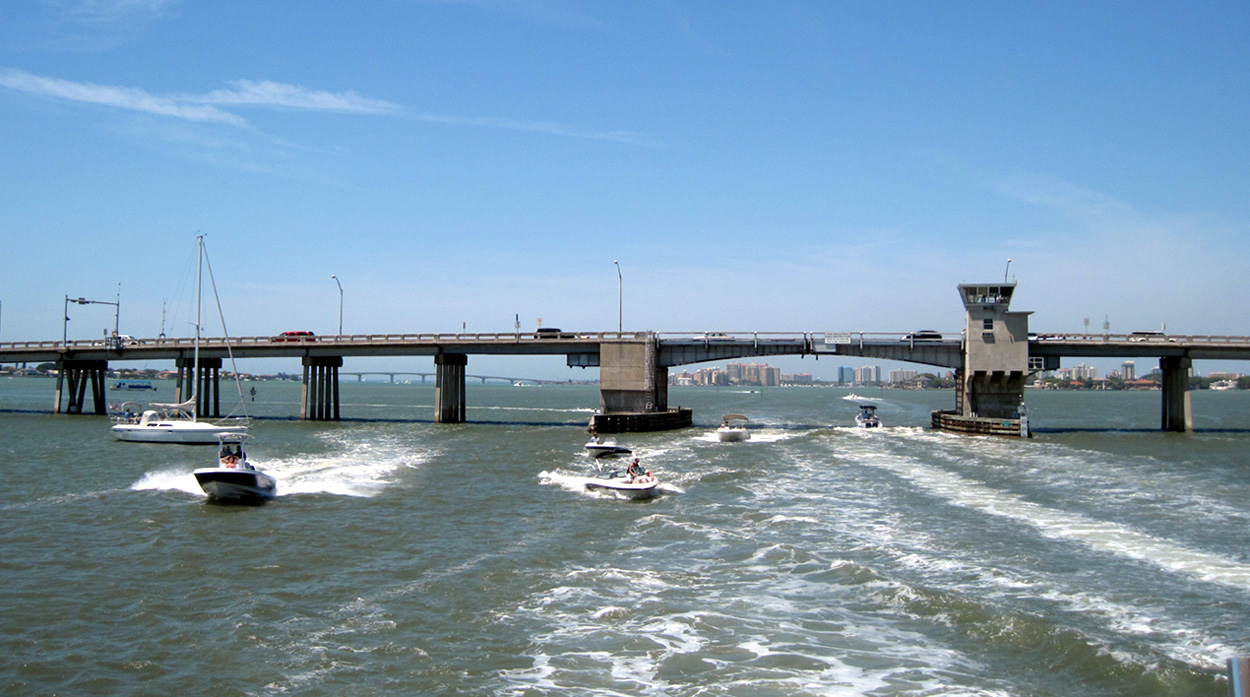 The Sarasota Bay Bridge is a double-leaf bascule-type drawbridge carrying Siesta Drive across Sarasota Bay, in Sarasota, Florida. It was built in 1972. This photo was taken from the excursion boat Le Barge, which had just passed under the bridge. Part of downtown Sarasota is framed under the drawspan. The blue building in the middle is One Sarasota Tower an office building. The John Ringling Bridge, with connects downtown Sarasota with St. Armands Key and other barrier islands, is in the distance at the left.